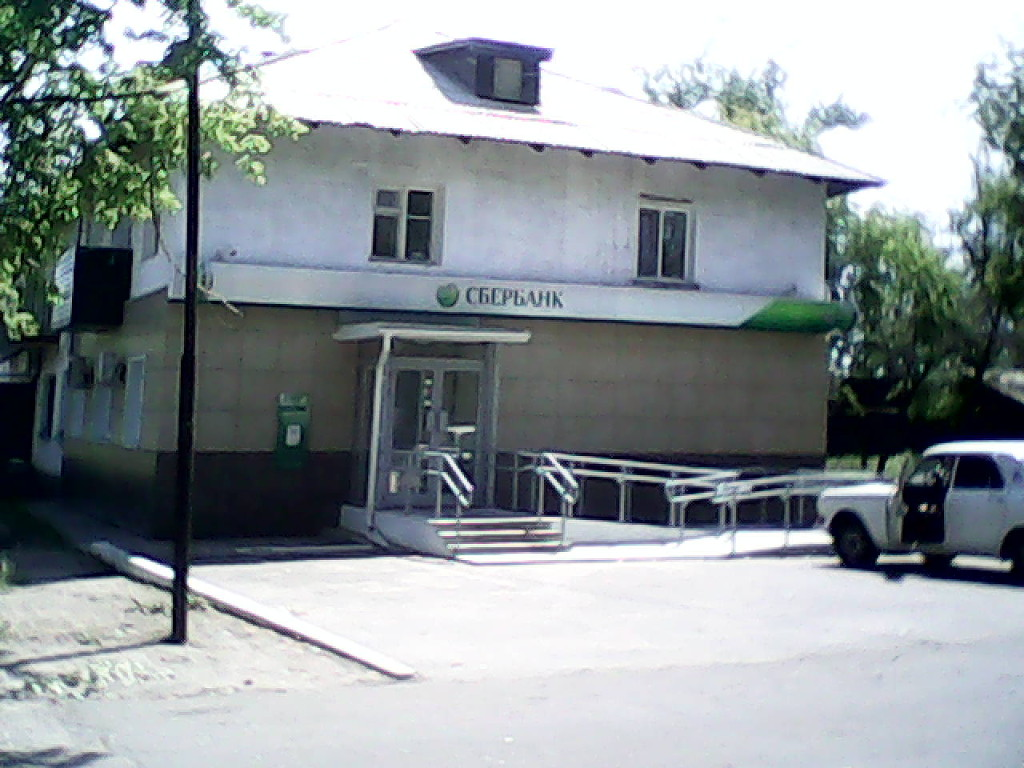 Sberbank